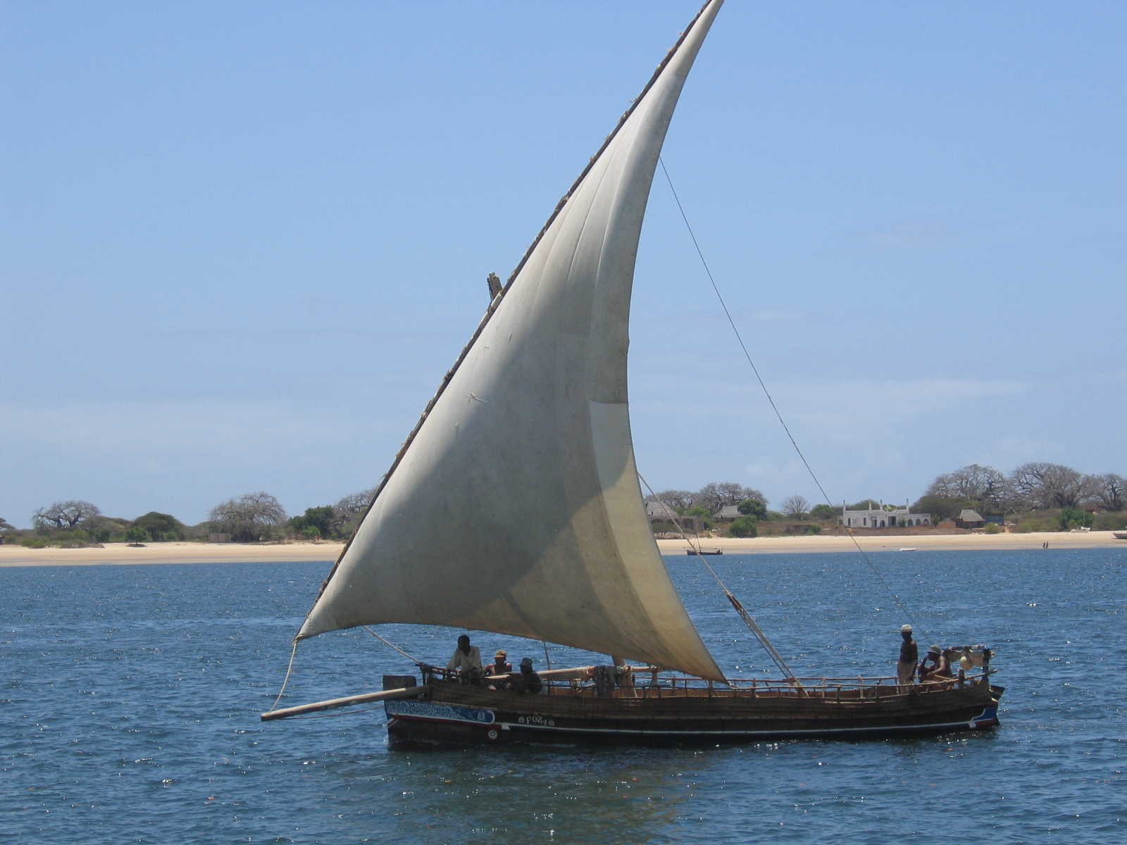 Dhow. Lamu, Kenya.